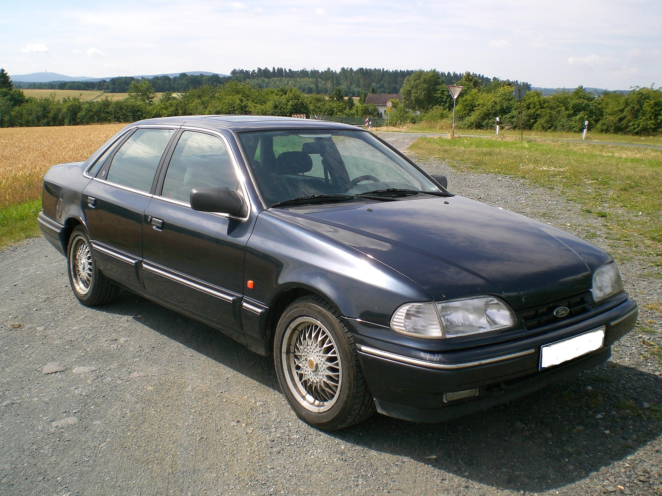 Ford Scorpio 2,0I